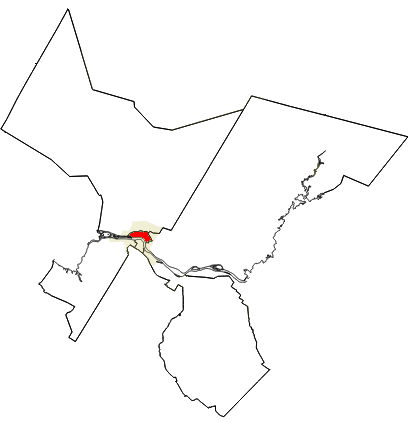 The riding of Fredericton North in relation to other Fredericton electoral districts. The riding is red, other parts of the city of Fredericton are gold.